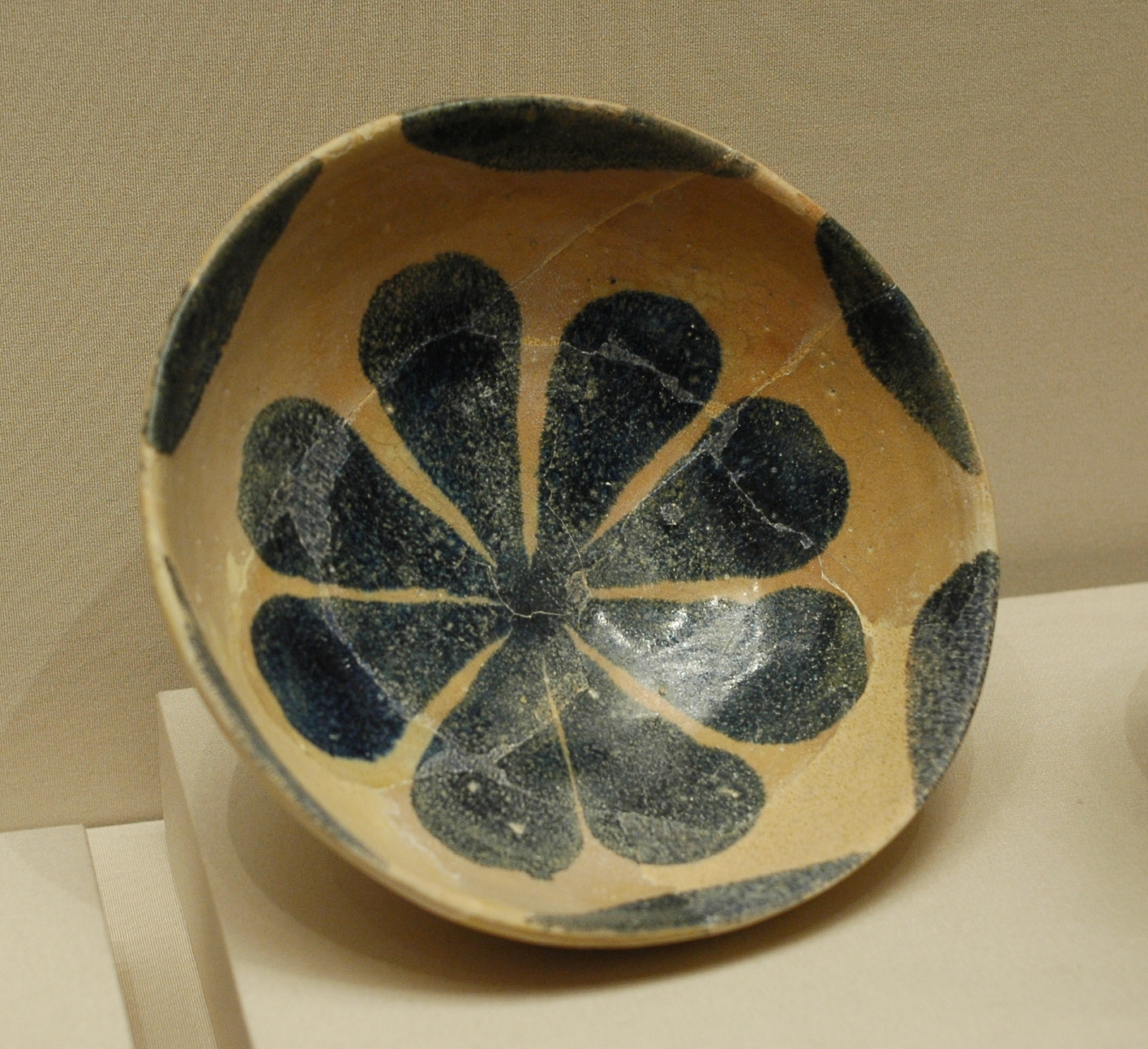 Cup with rose petals.